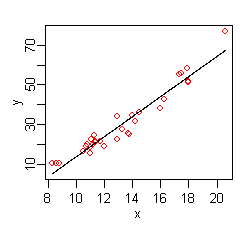 Plot of a simple linear model for comparison to the Friedman's Multivariate Adaptive Splines Regression (MARS) model in Friedmans_mars_simple_model.png